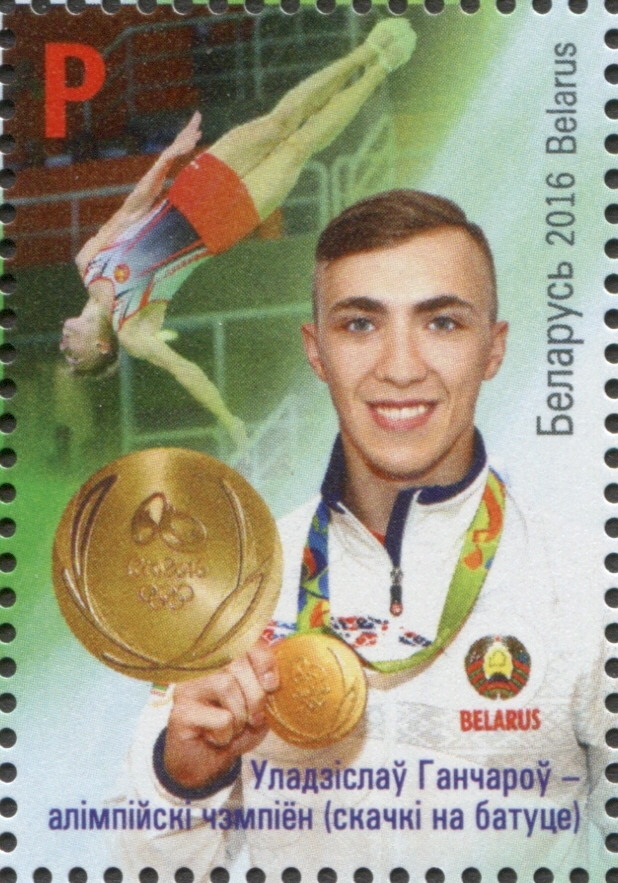 Uladzislau Hancharou on a 2016 stamp of Belarus “Medal winners of the Games of the XXXI Olympiad in Rio de Janeiro”.